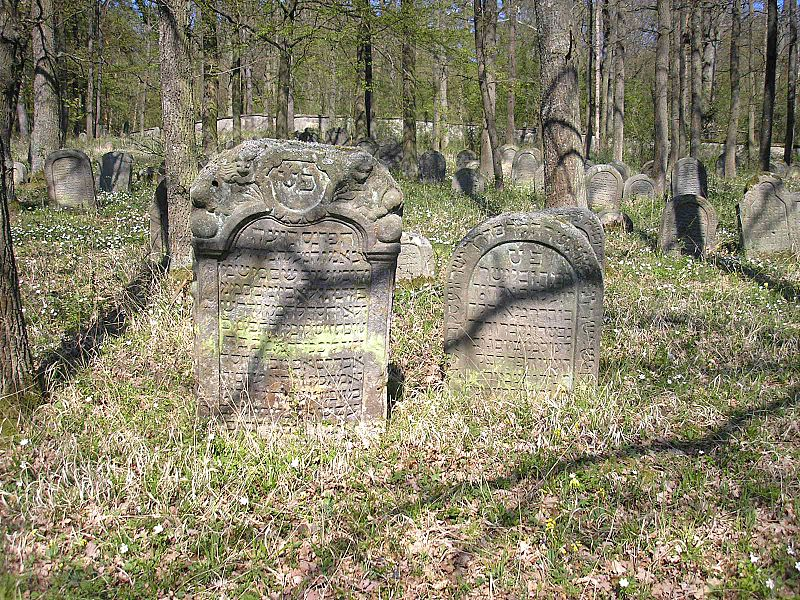 Ebern (Landkreis Haßberge, Lower Franconia, Germany). Historic Jewish cemetery (1633)